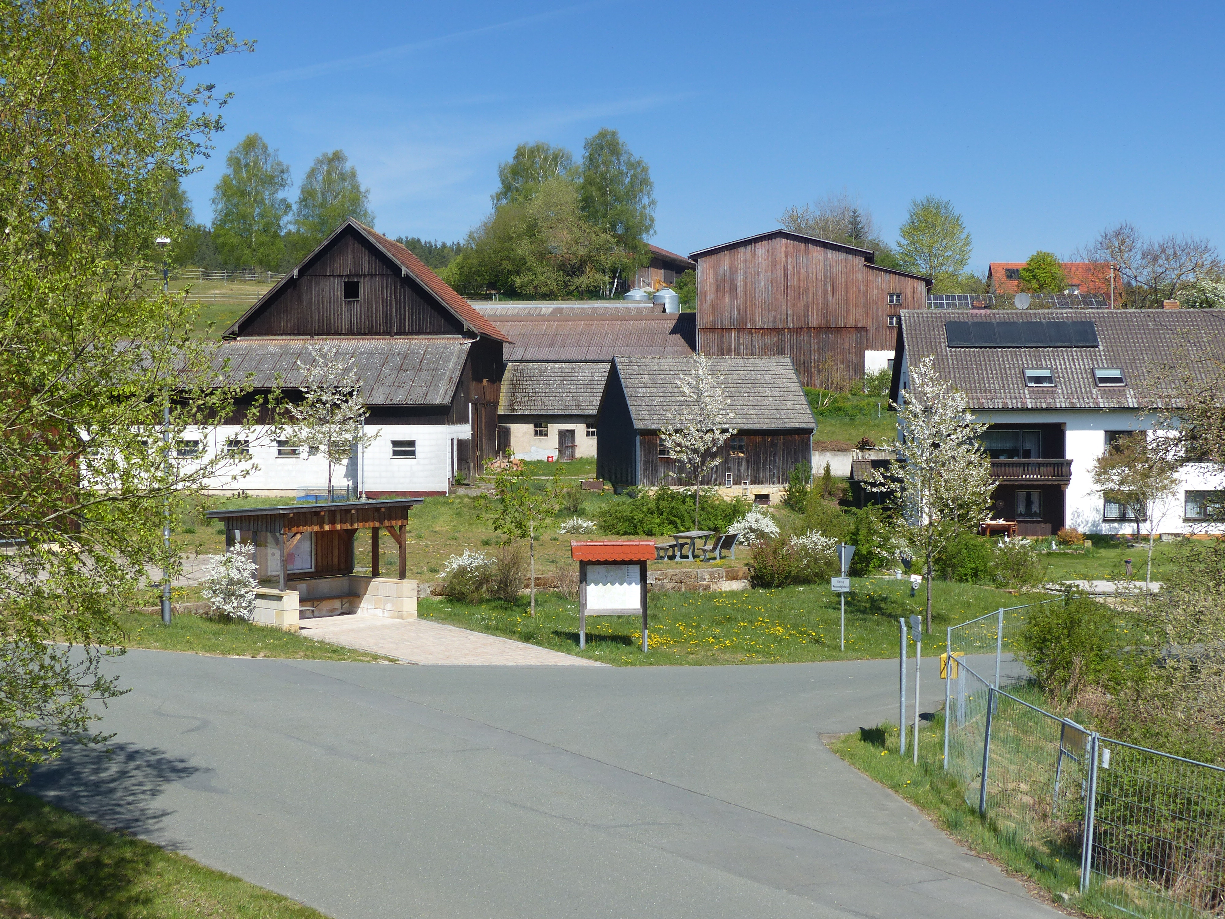 The village Moritzreuth, a district of the municiplality of Hummeltal.